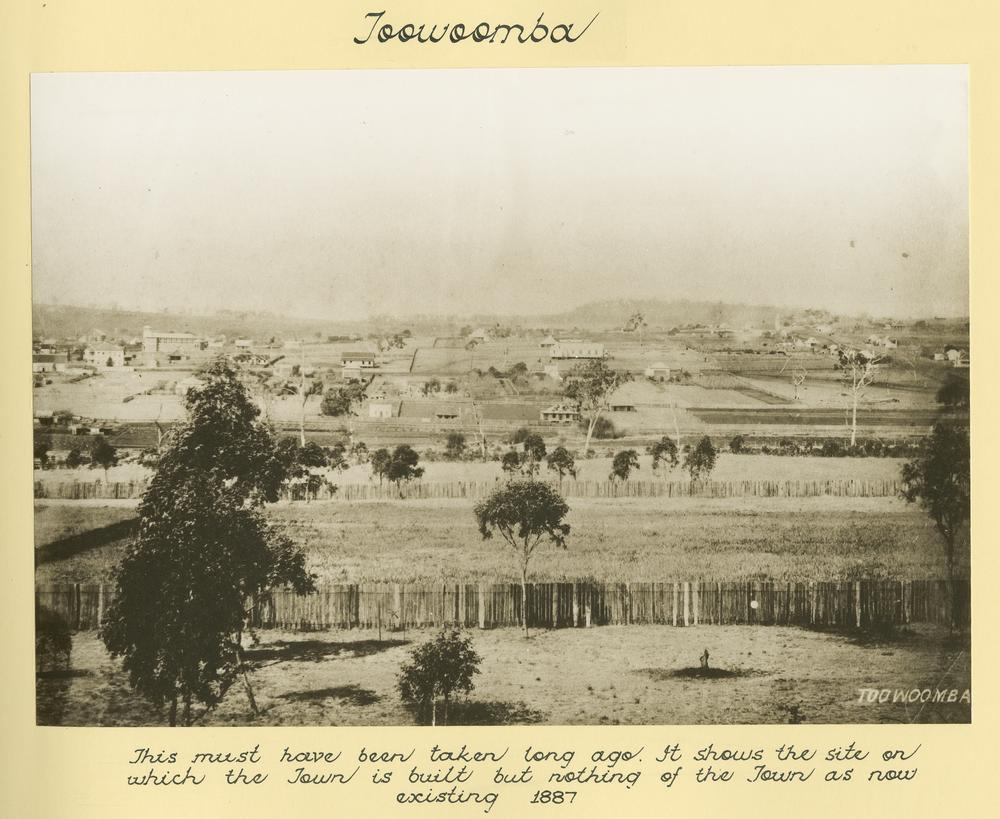 Toowoomba and Drayton prior to 1887.